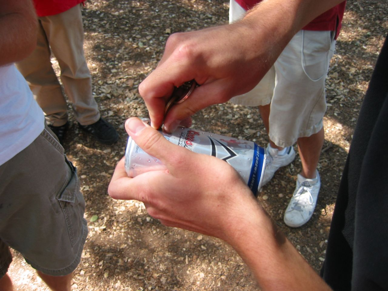 Punching a hole in a beer can with a key, for the purpose of shotgunning.